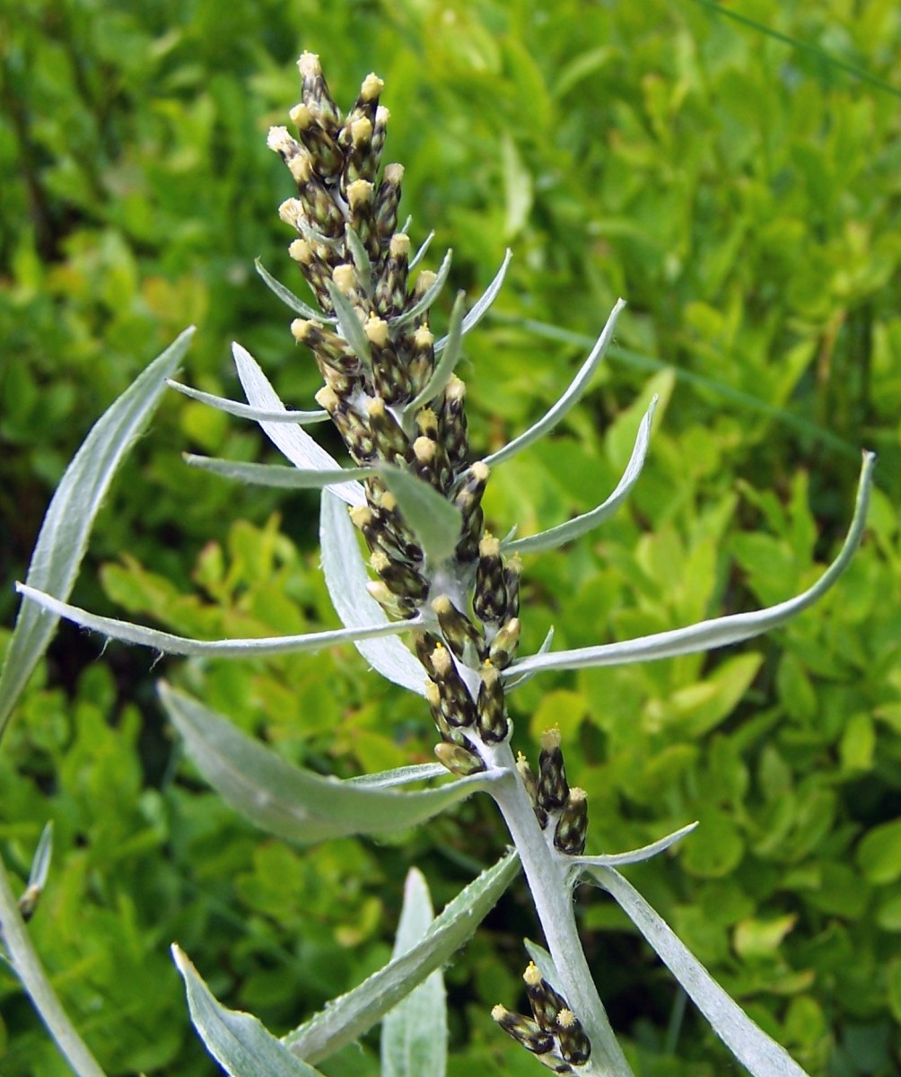 Gnaphalium norvegicum (Tatra Mountains, Dolina Kondratowa)